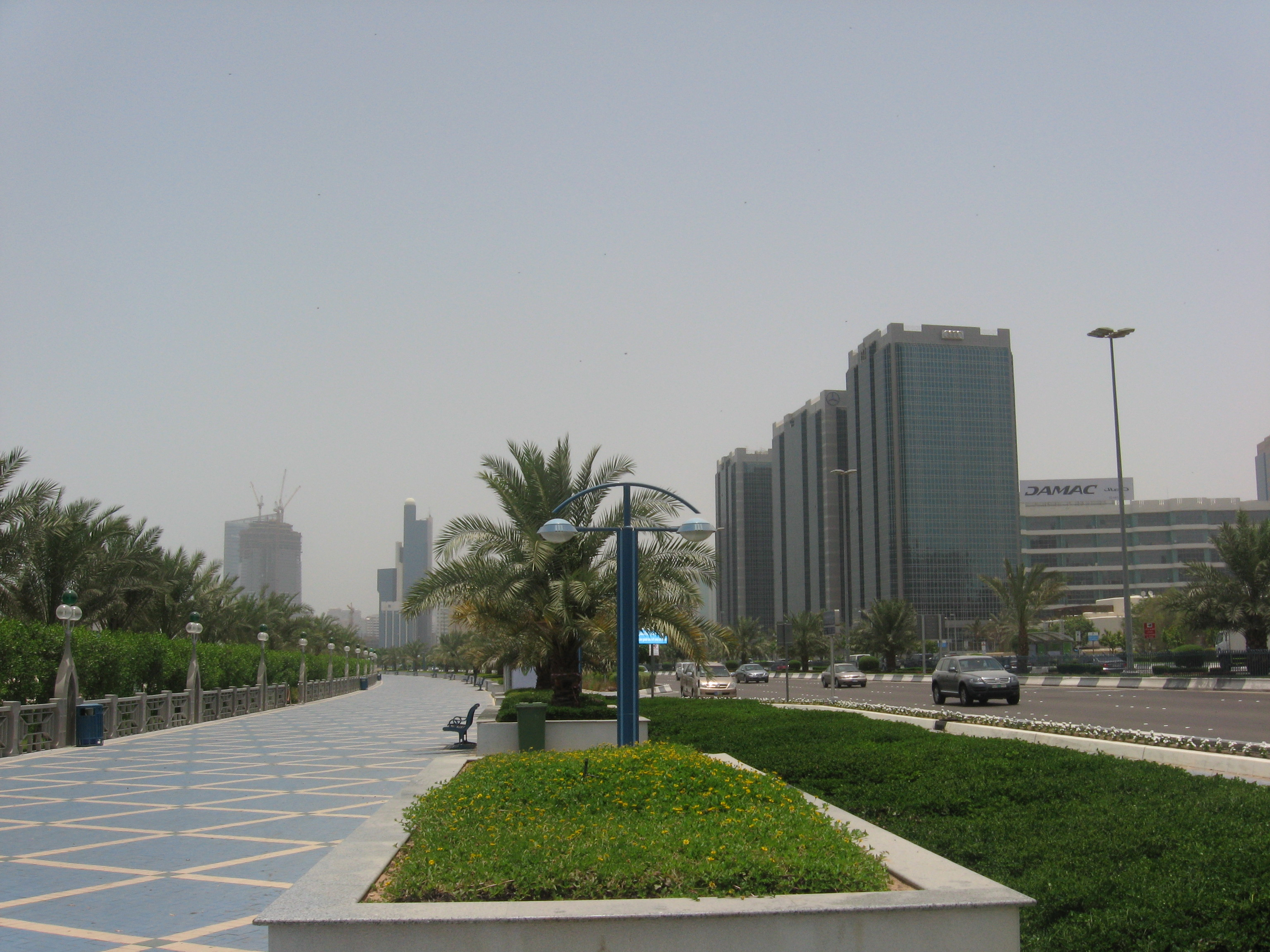 Corniche Road in Abu Dhabi, UAE.